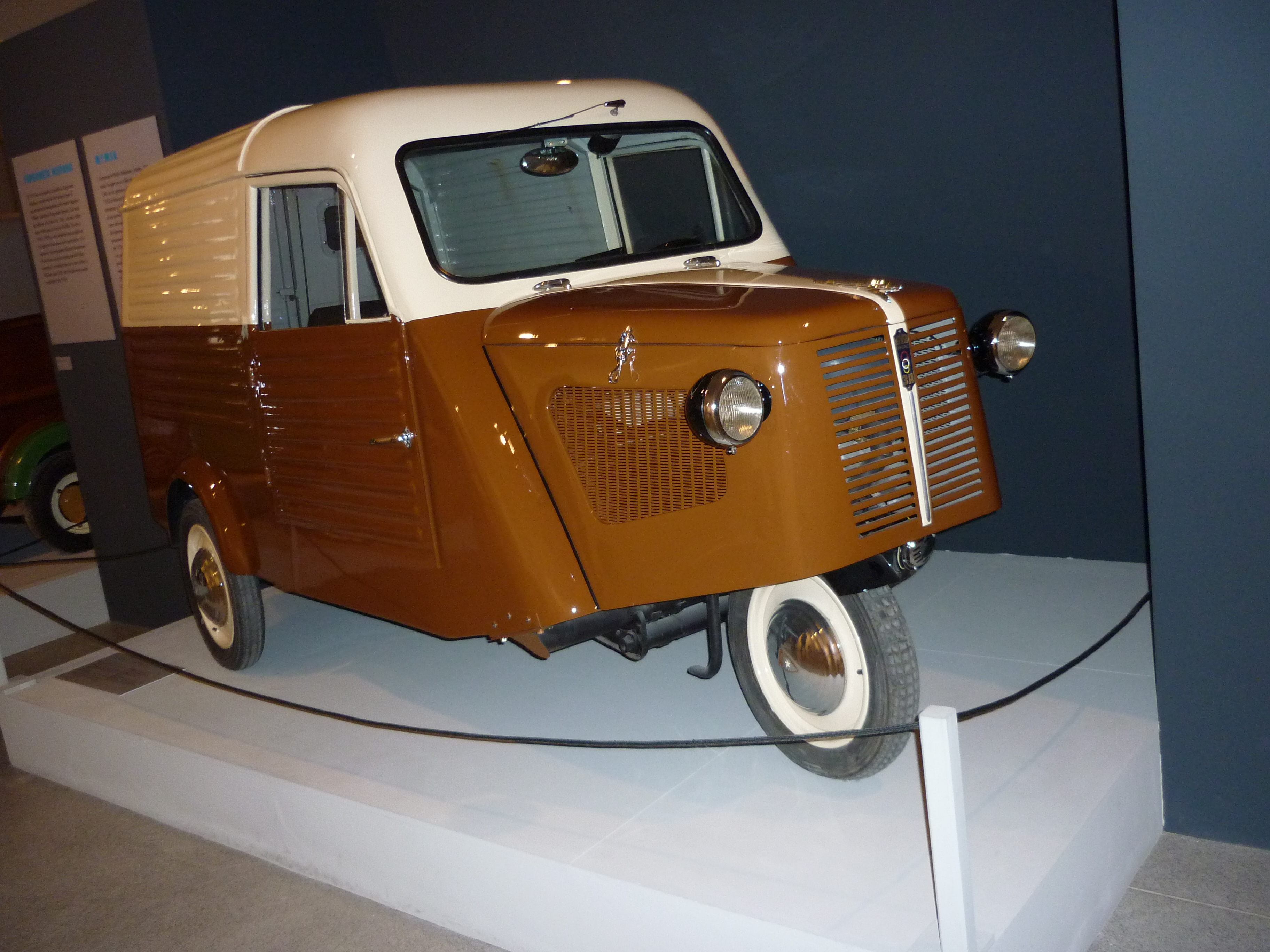 Mymsa 3R "Rana" (1956), made in Barcelona (Catalonia)